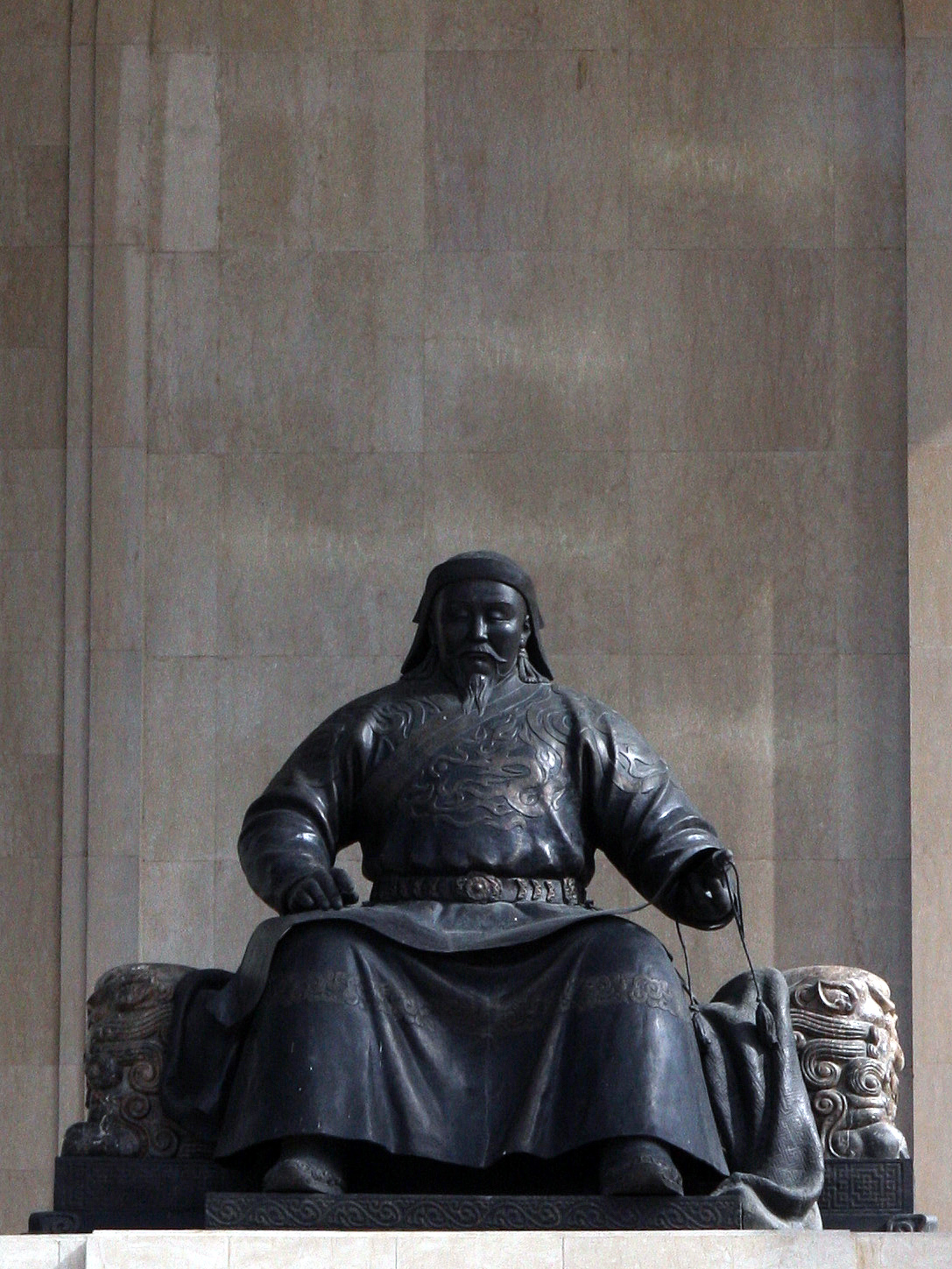 Statue of Kublai Khan in Sukhbaatar Square